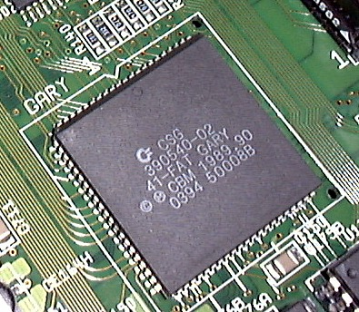 "Fat Gary" custom chip used in Commodore Amiga 4000 series computers.